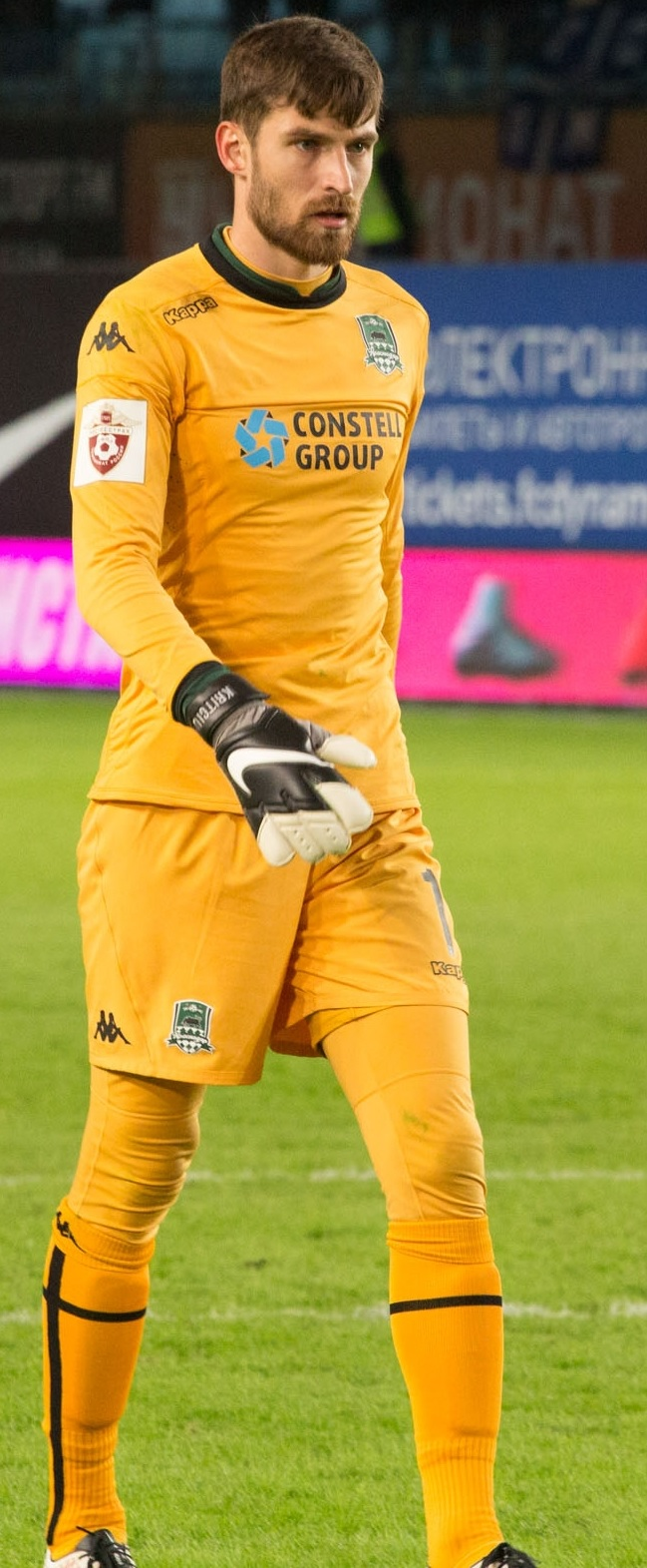 Stanislav Kritsyuk with FC Krasnodar in a game against FC Dynamo Moscow on 4 April 2016.